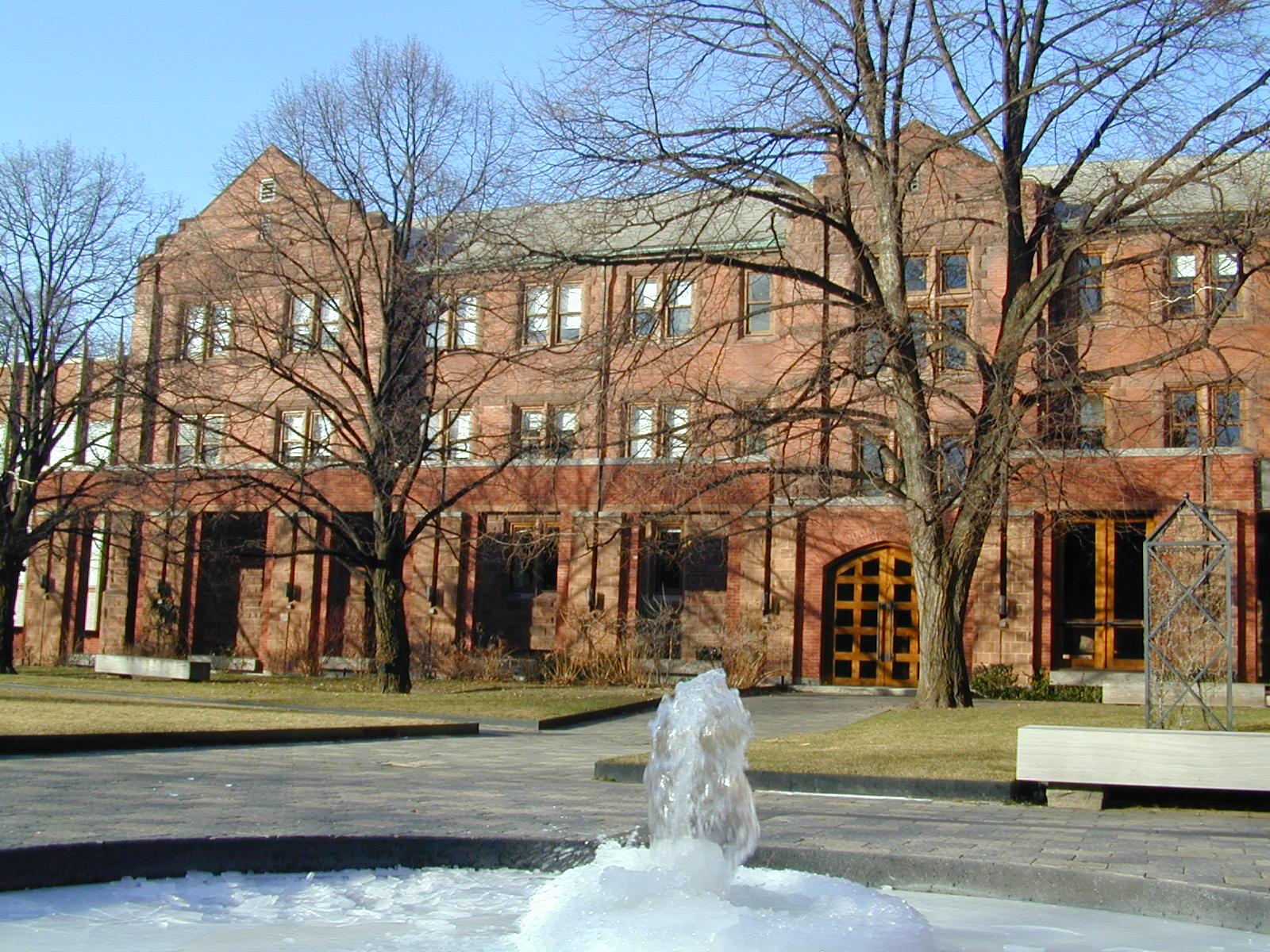 Summary by original uploader : John W. Graham Library, University of Trinity College, University of Toronto. Photo by paradiso.